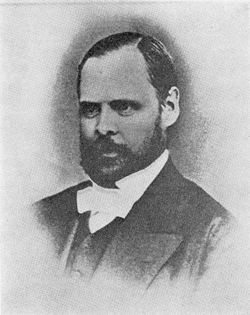 The Swedish architect Fridolf Wijnbladh